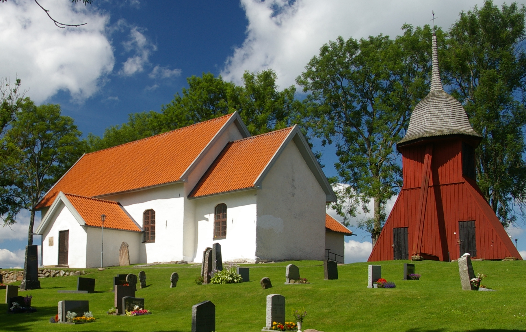 Vårkumla kyrka (Swedish:Church of Vårkumla) in Västergötland, Sweden.